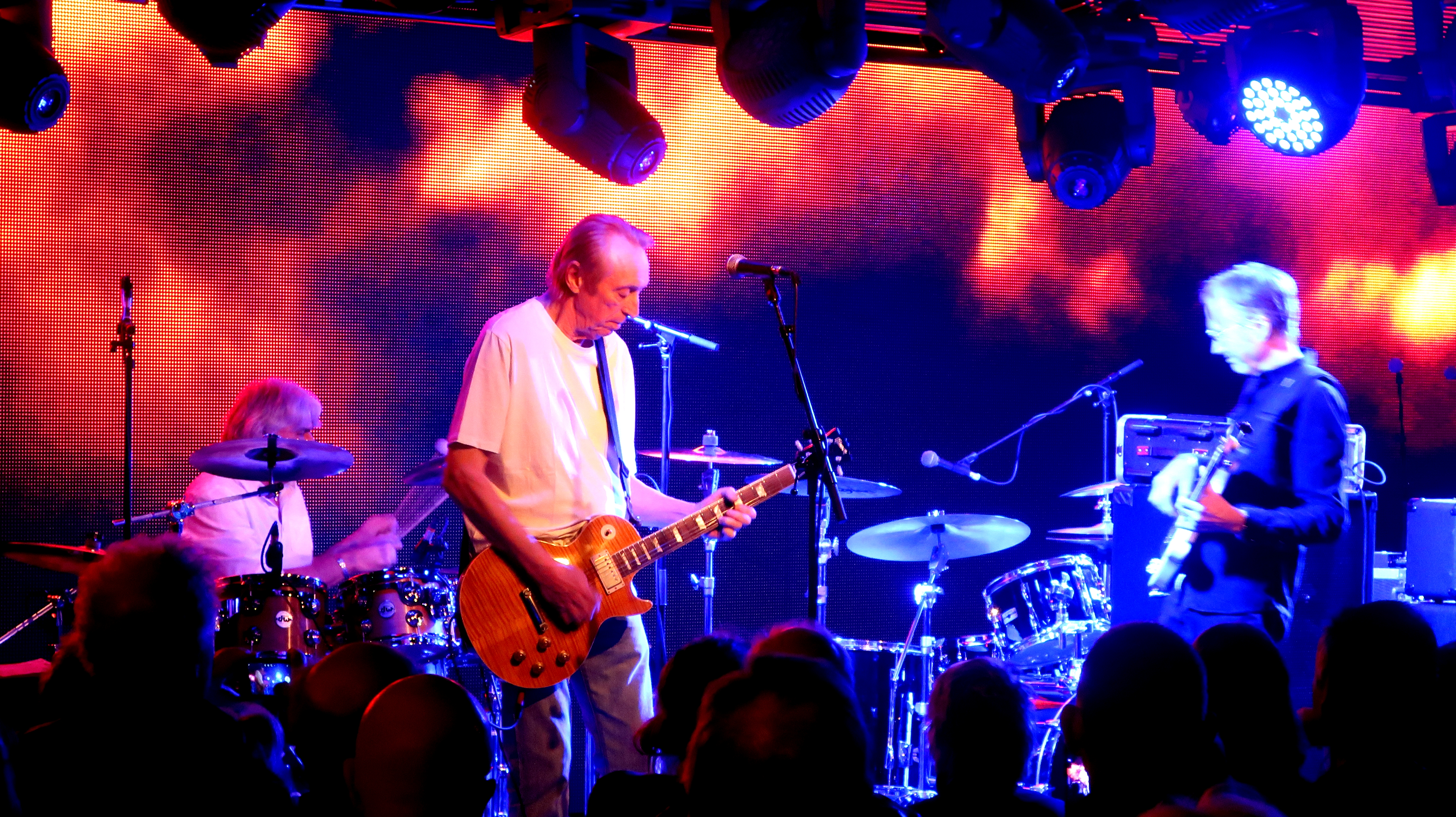 Stan Webb's Chicken Shack play Under The Bridge April 2019